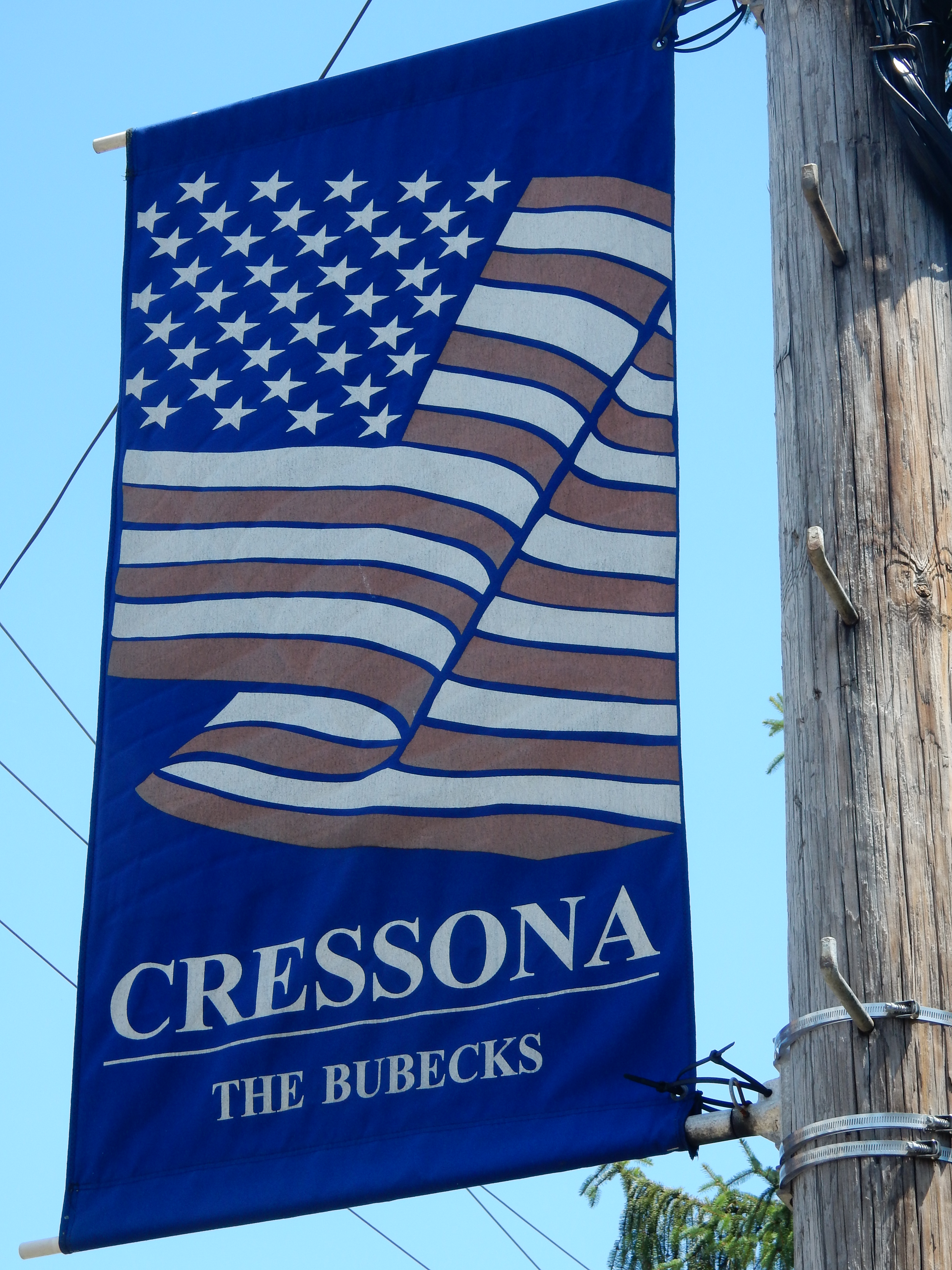 Welcome Sign on Cressona streets, Schuylkill County, Pennsylvania.